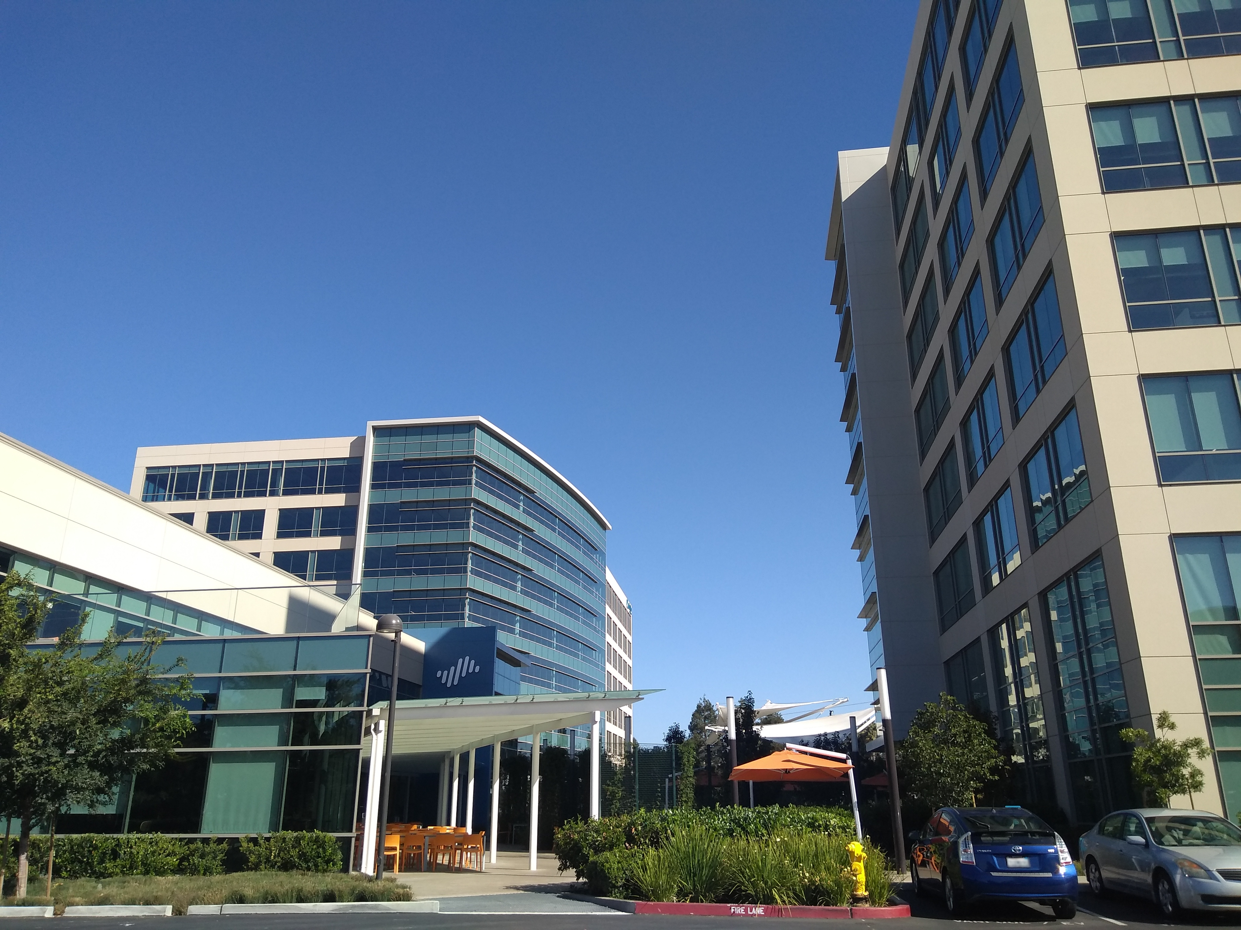 Palo Alto Networks corporate headquarters in Santa Clara, CA. Photo taken from the south entrance. Buildings 3 and 4 visible on the left, building 2 visible on the right.